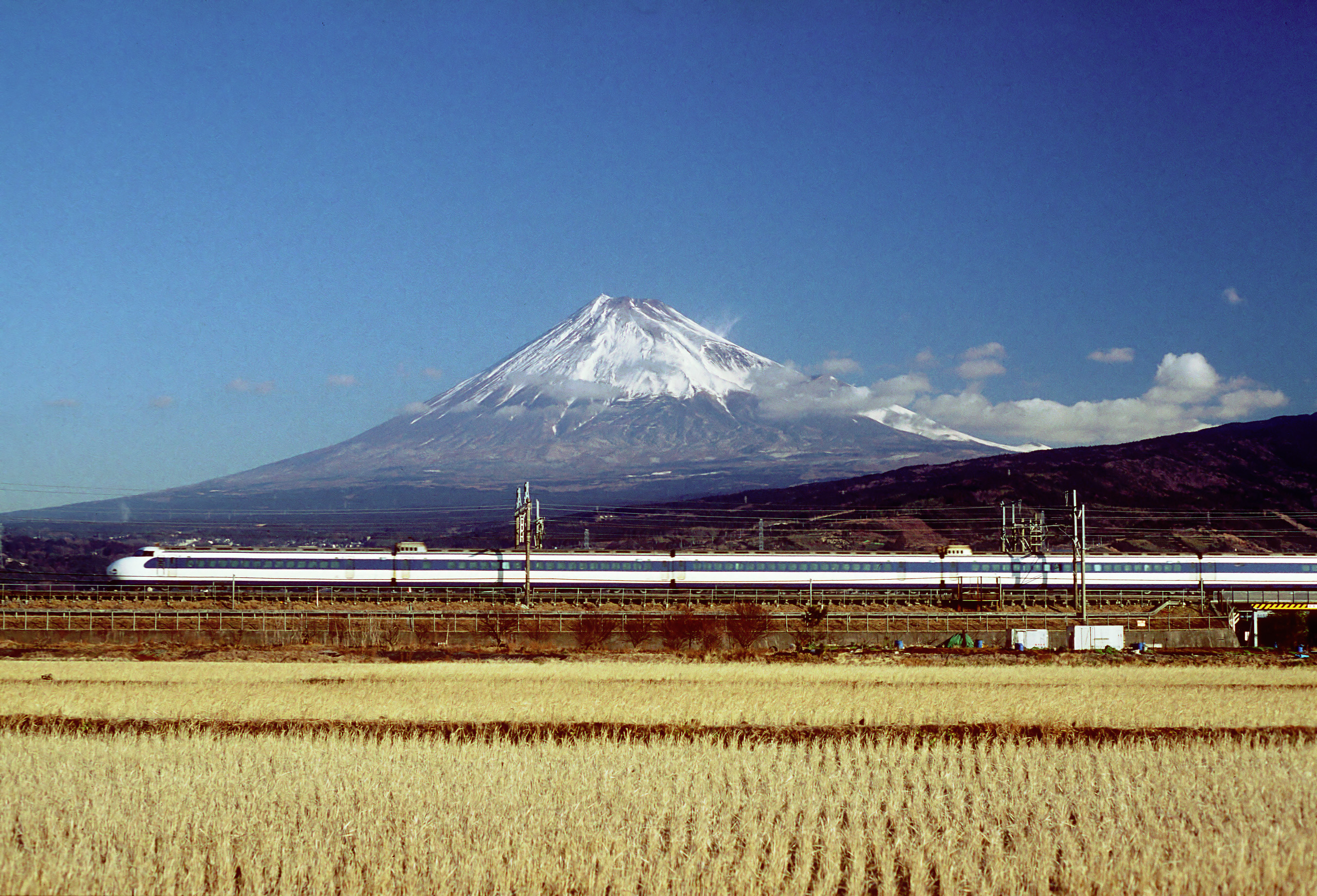 Japanese National Railways 0 series Shinkansen running between Mishima and Shinfuji.